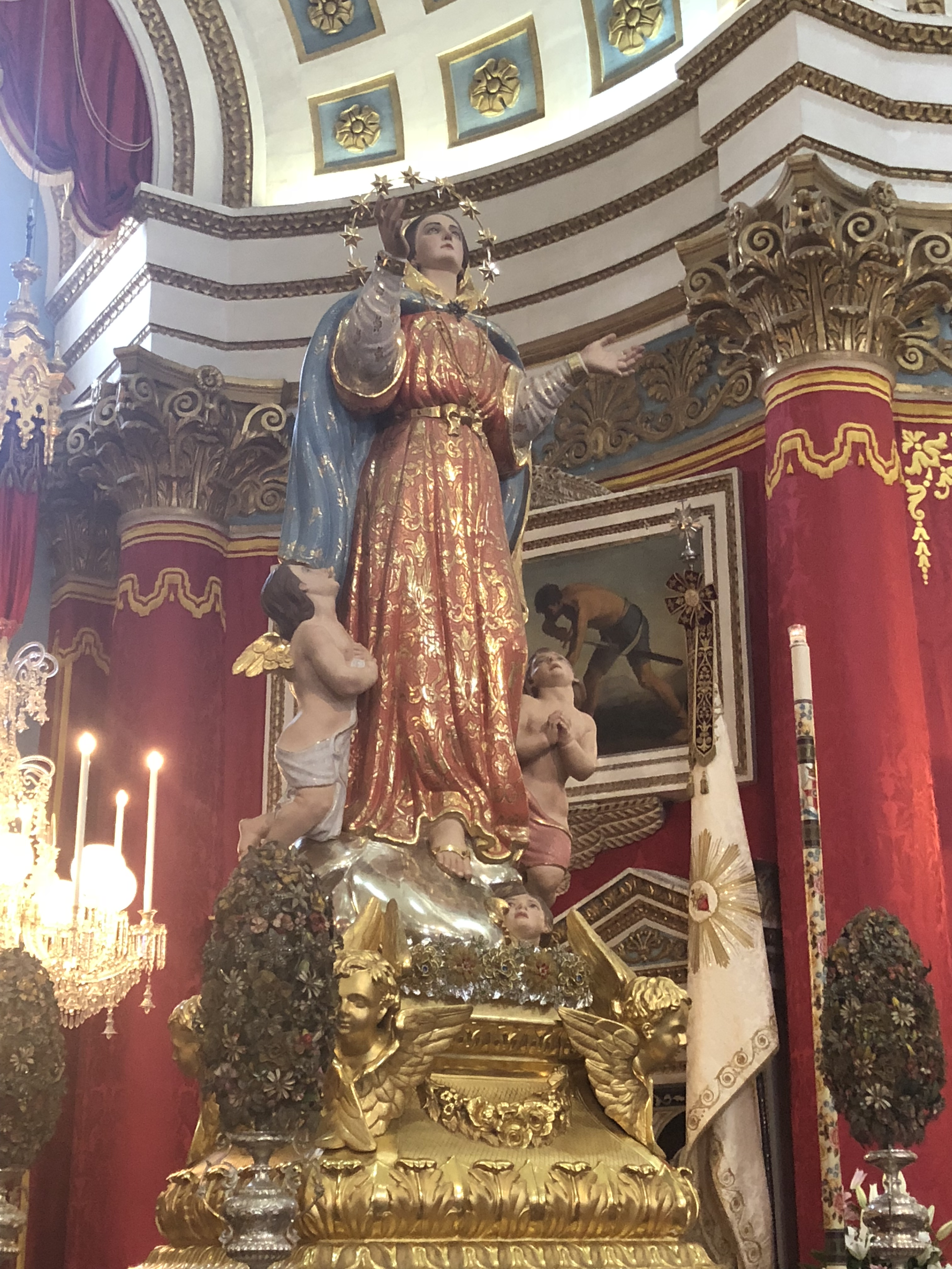 The Titular statue of the Assumption Mosta, located in the Sanctuary Basilica of the Assumption of Our Lady in Mosta, Malta. Statue was created by Salvatore Dimech in 1868 and remodelled by Vincent Apap in 1948.